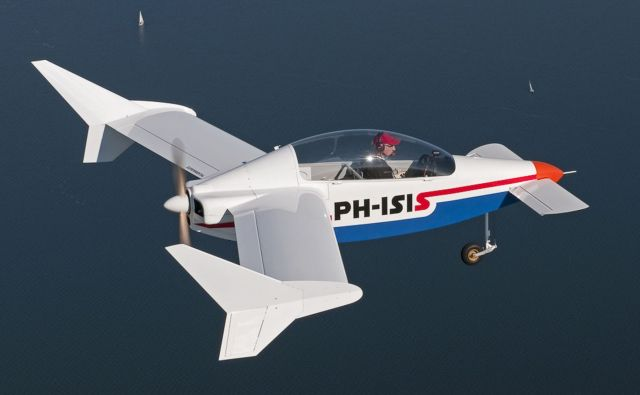 IBIS RJ03 (registration PH-ISI) inflight overhead IJselmeer the Netherlands